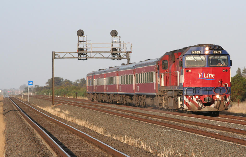 V/Line N class locomotive N469 with N type carriage set at Lara Victoria Australia